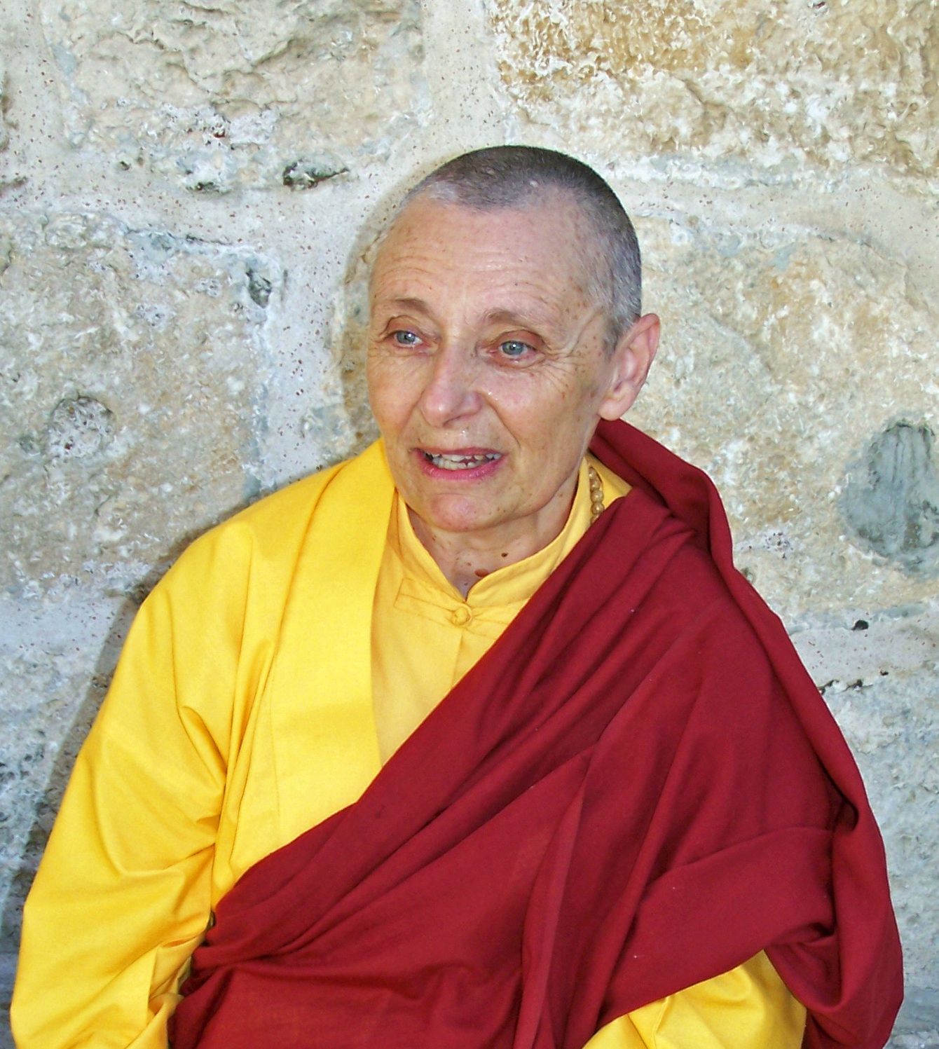 File cropped. taken by User:Tgumpel Tenzin Palmo at the Church of the Holy Sepulchre, Jerusalem, September 2006 Tenzin Palmo